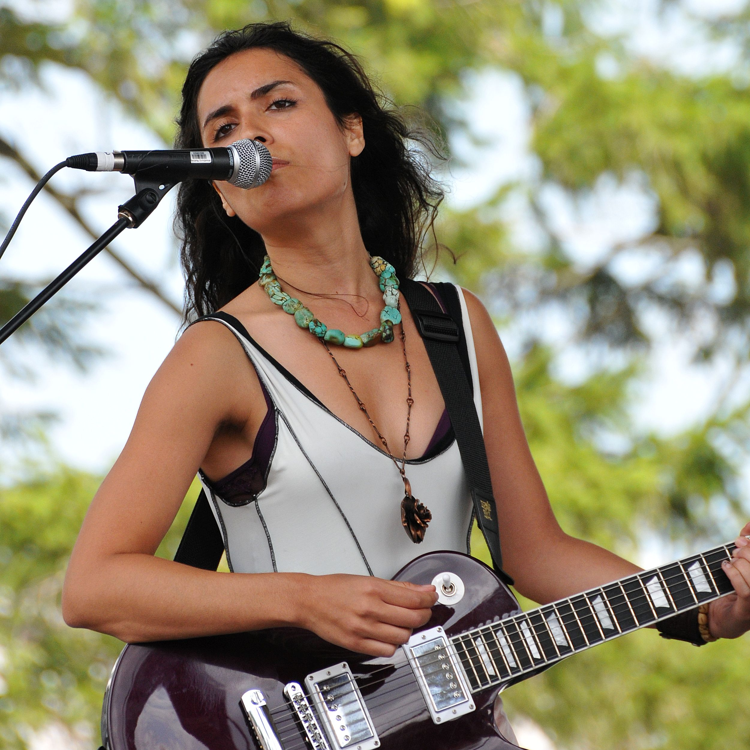 Haale